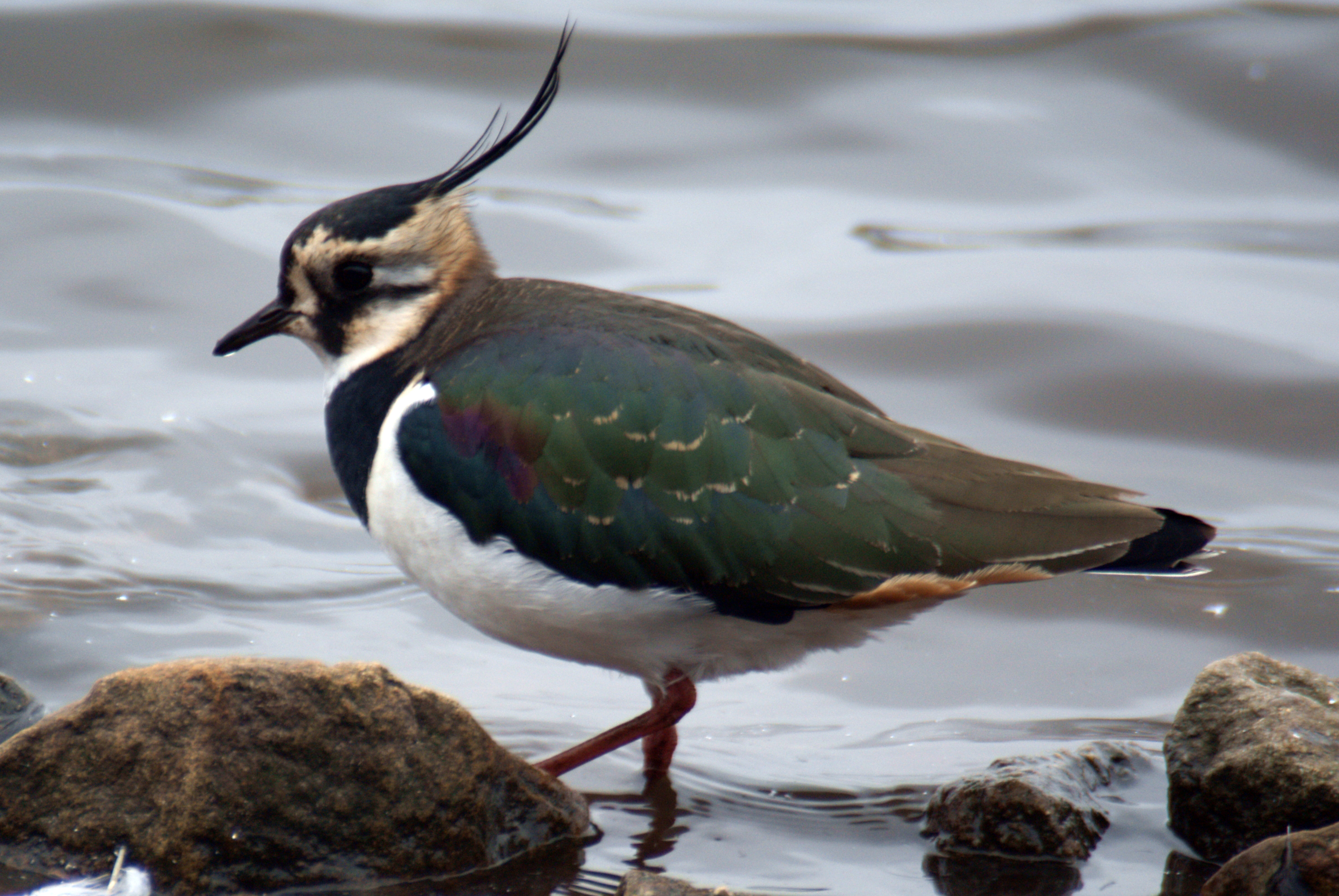 Vanellus vanellus - Northern Lapwing